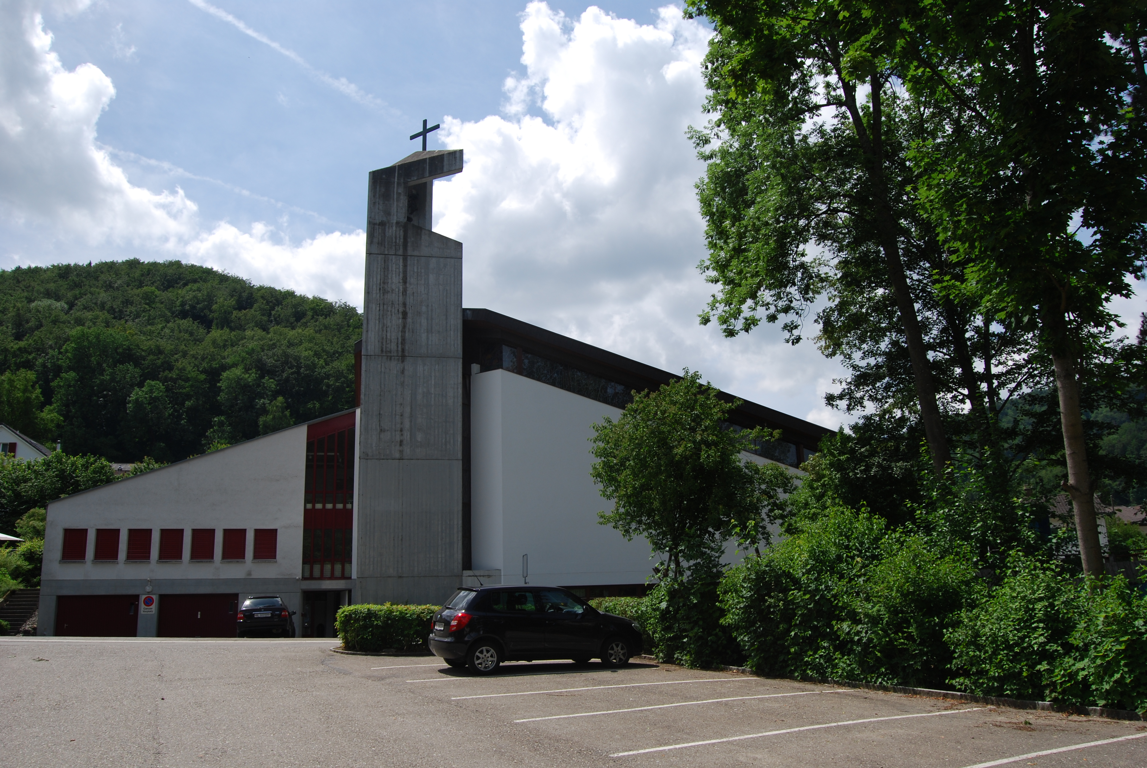 Catholic church of Oberdorf, canton of Basel-Country, Switzerland